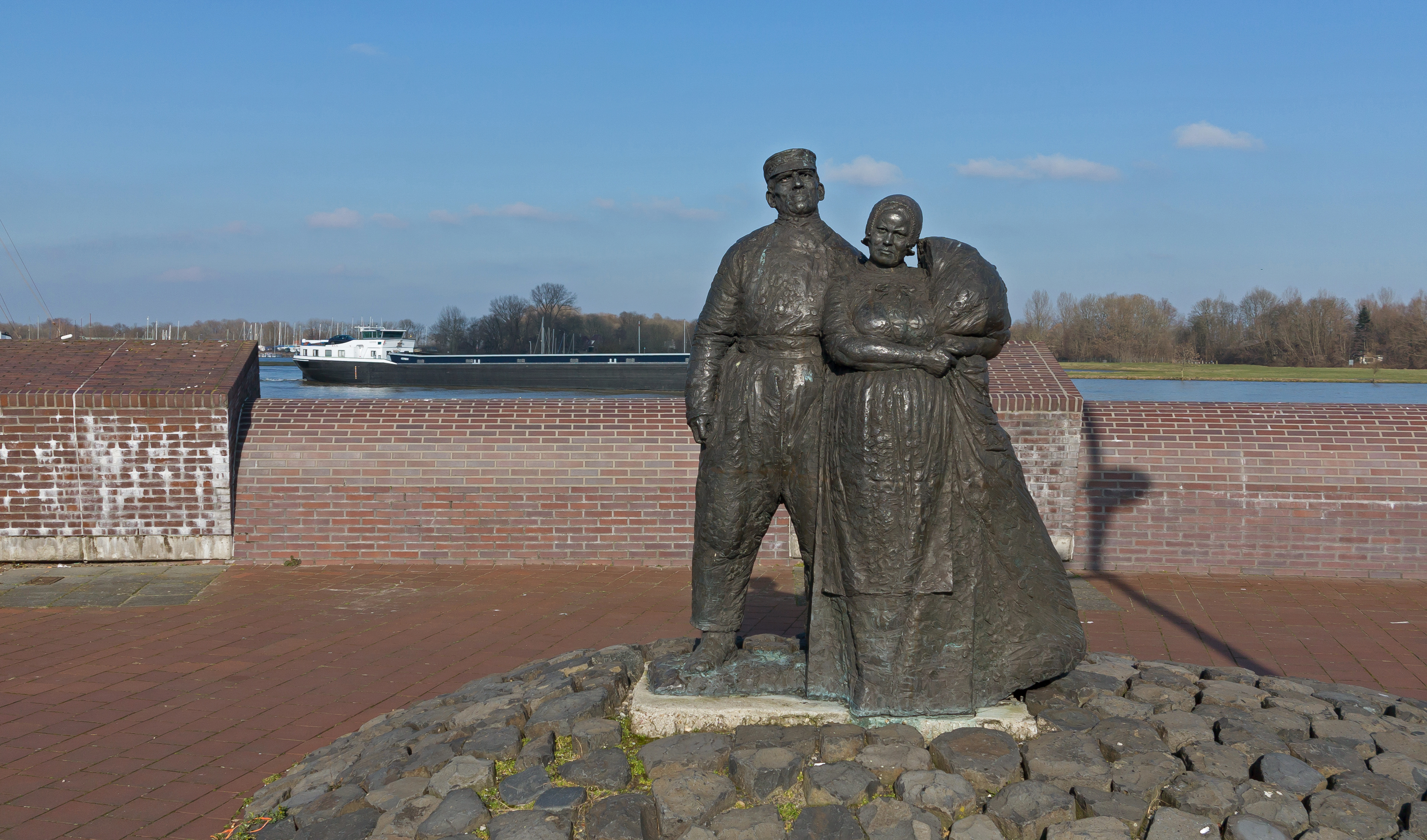 Kampen, sculpture: het Schokkermonument